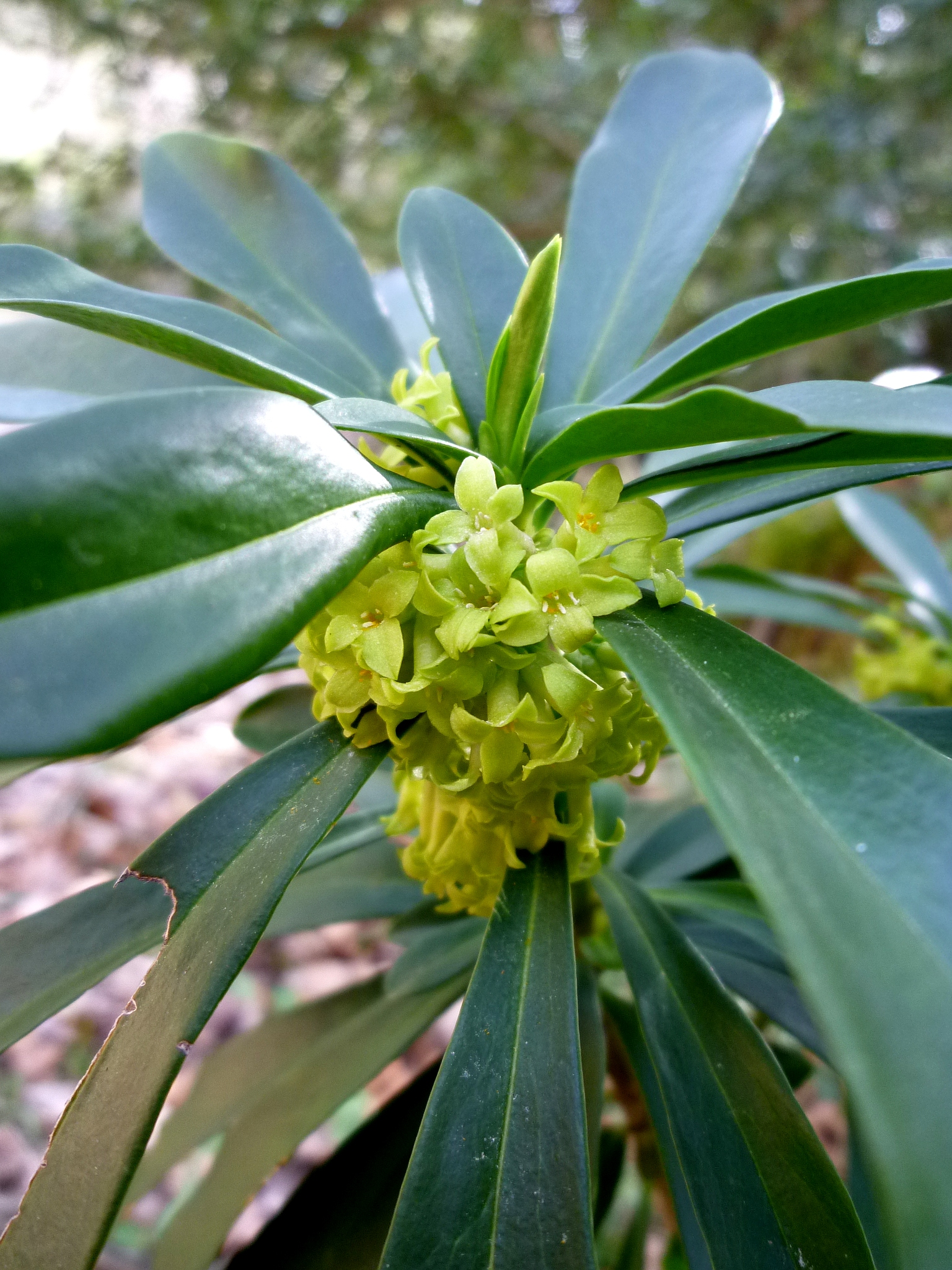 Daphne laureola. In Guixers (Solsonès-Catalunya). To 880 m. altitude